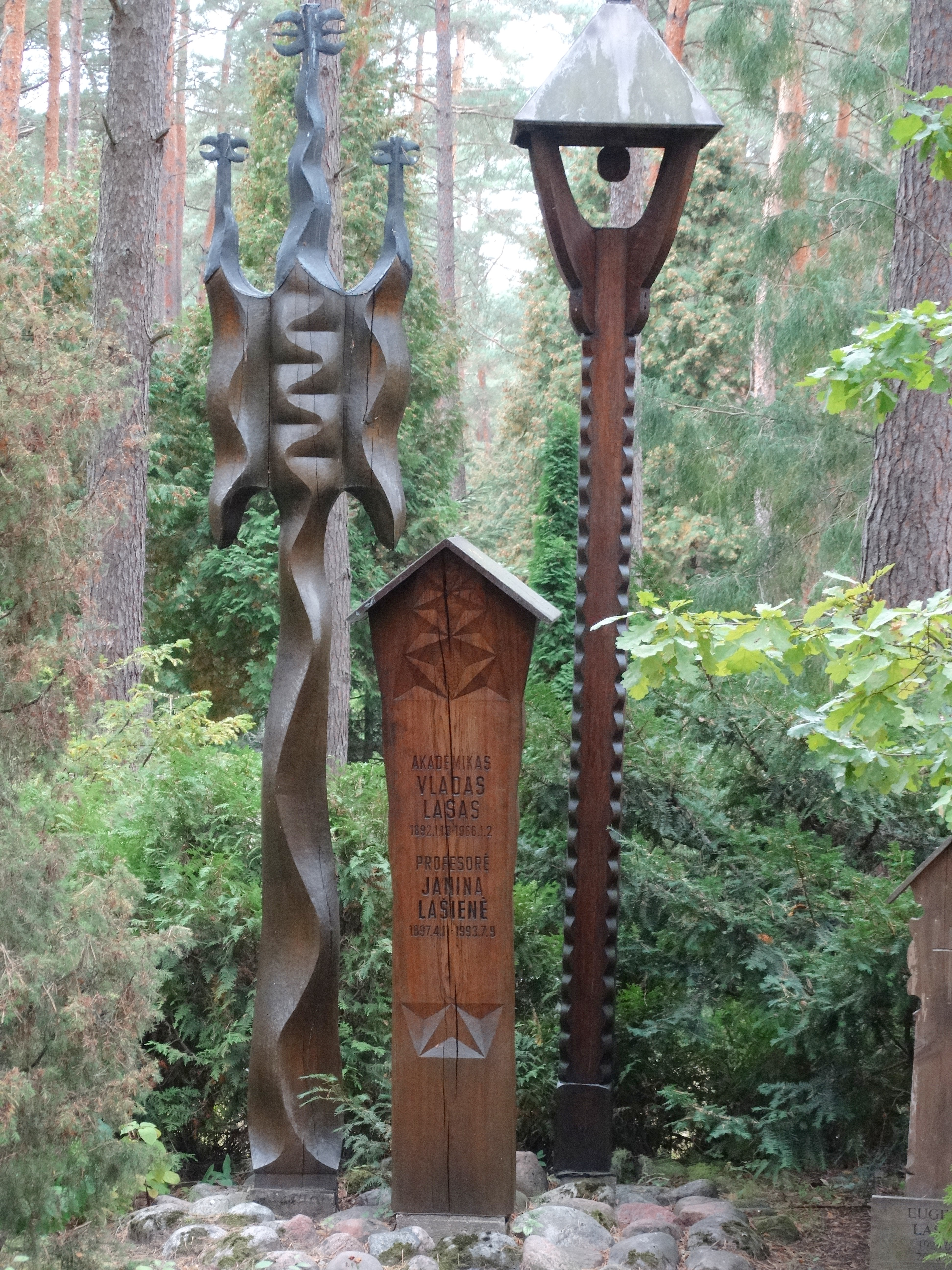 Tomb of Vladas Lašas (1892), Janina Lašienė, Petrašiūnai, Lithuania